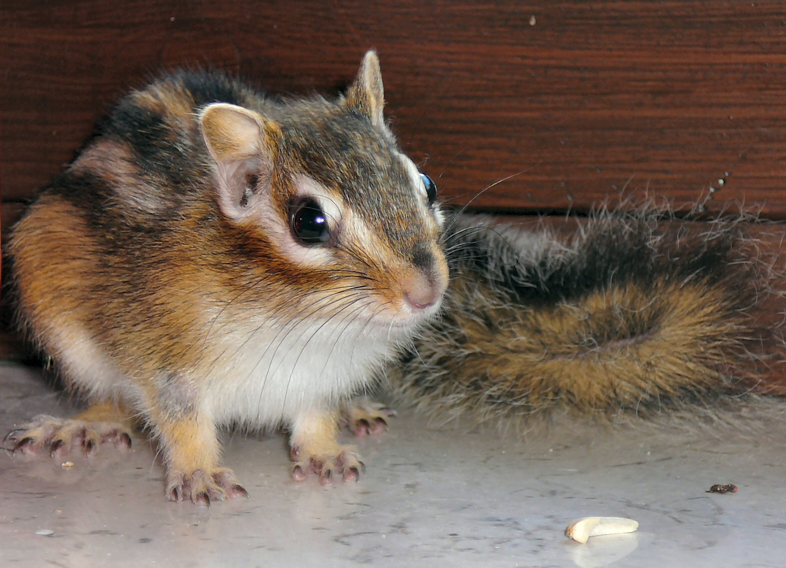 Siberian Chipmunk. Close front view.